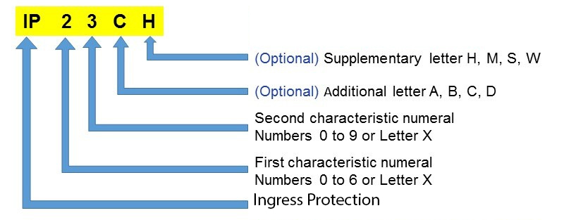 IPX Codes Explained Waterproof Dustproof Water Resistant Ratings used in Electronic gadgets